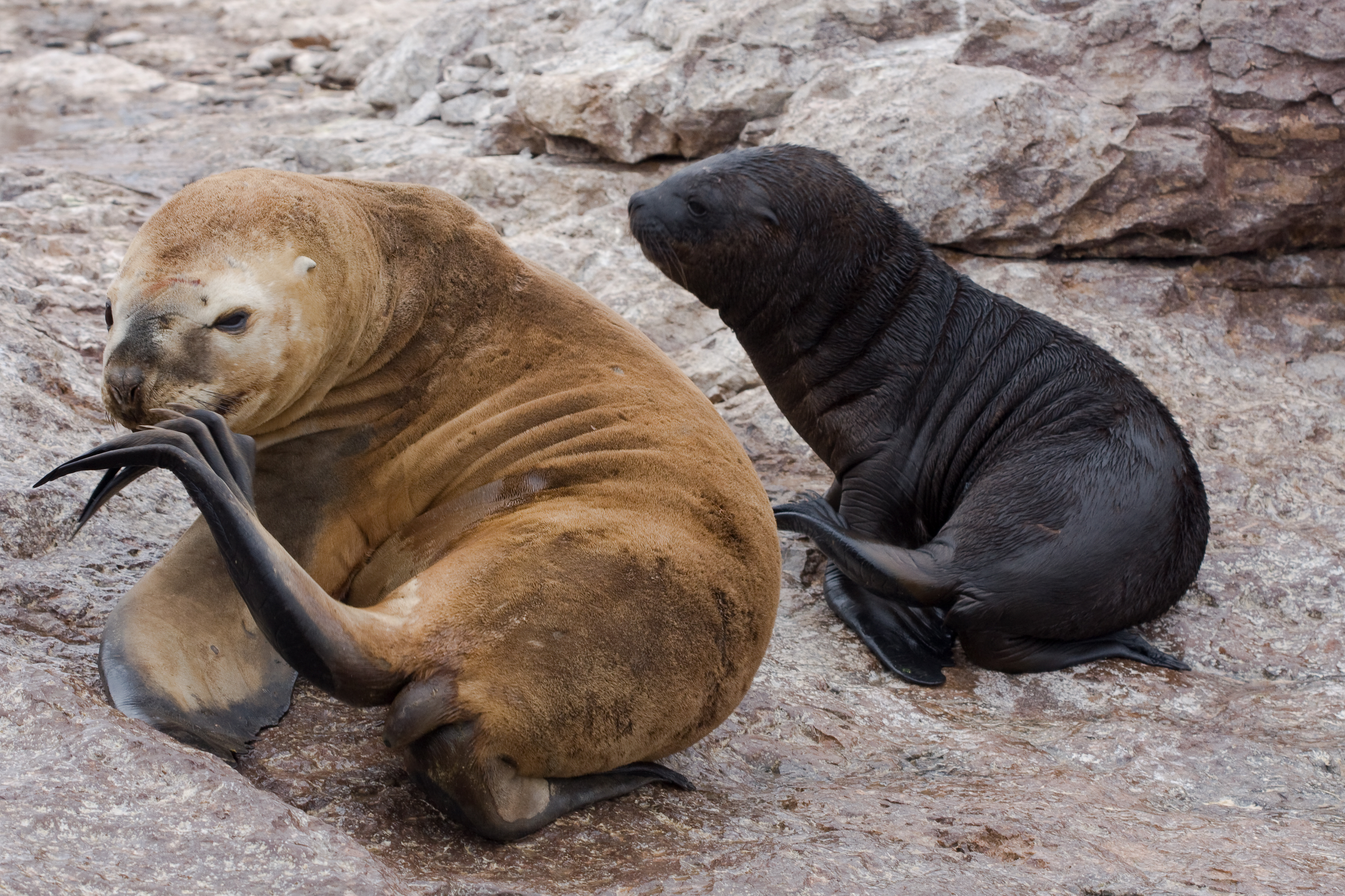 South American Sea Lion pups in a colony in Patagonia. When they are born they are black (or dark brown) and they molt to a mid-brown colour.